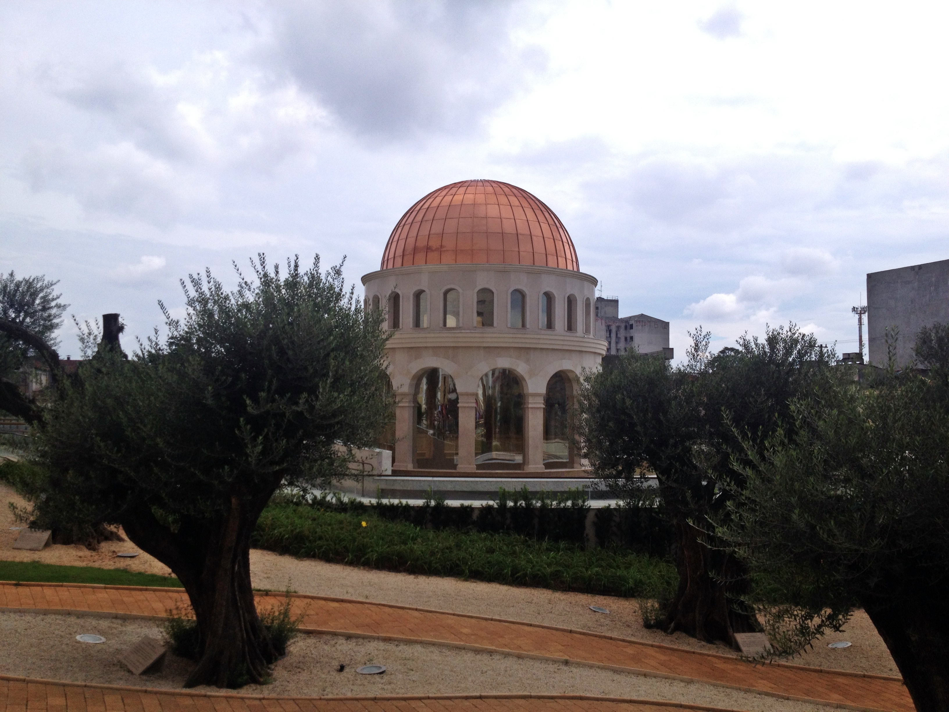 Salomon Temple in São Paulo, Brazil.